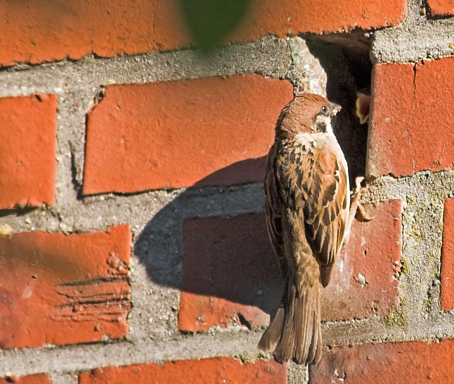 There is a bird family living in a hole in the wall. In the mornings, they are in a feeding frenzy. :)